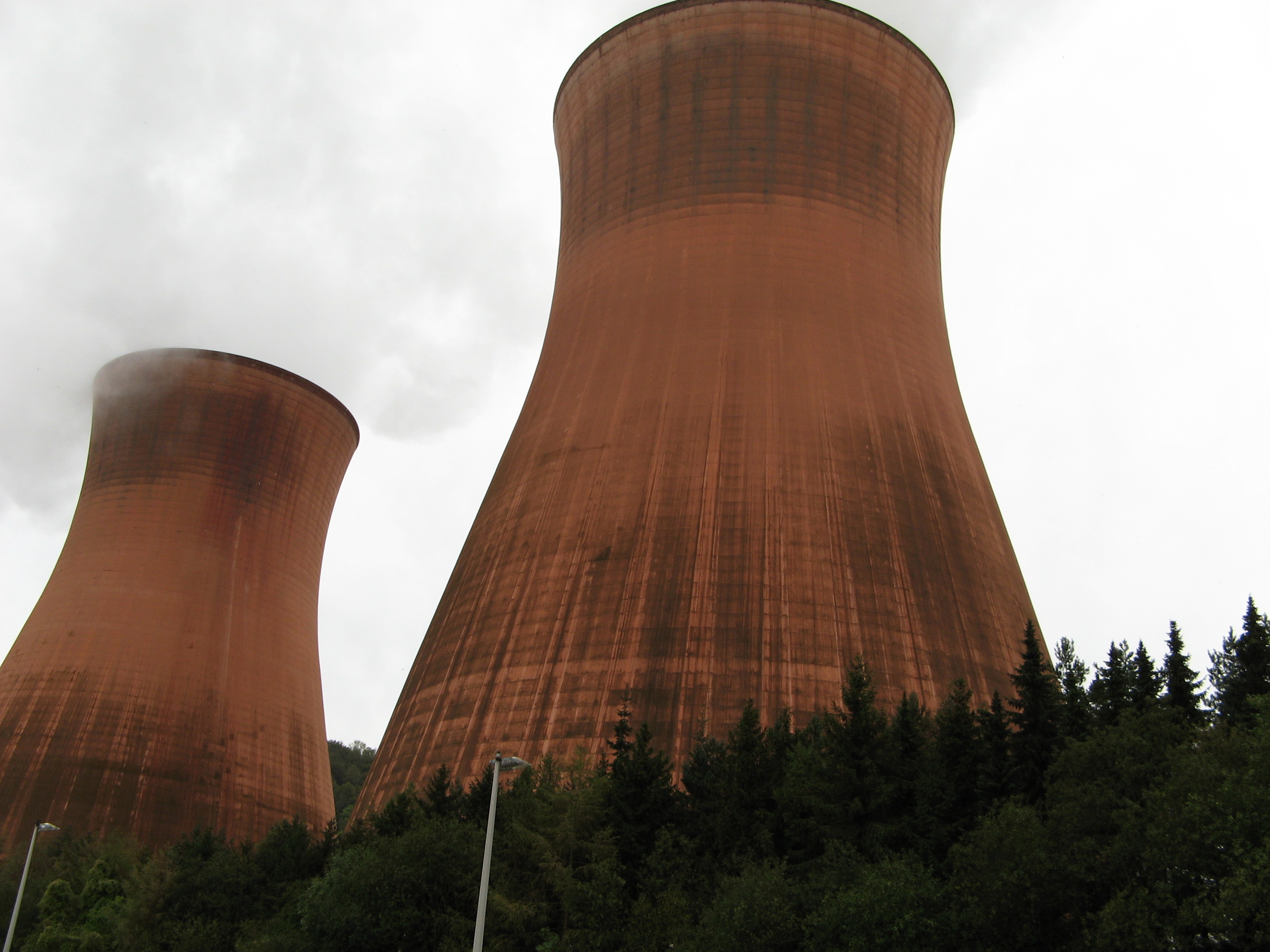 Cooling Towers of Ironbridge 'B' Power Station, showing unusual 'red/pink' colouration, designed to blend in with the local geology and soil colour. (Destroyed by controlled explosion in 2019).